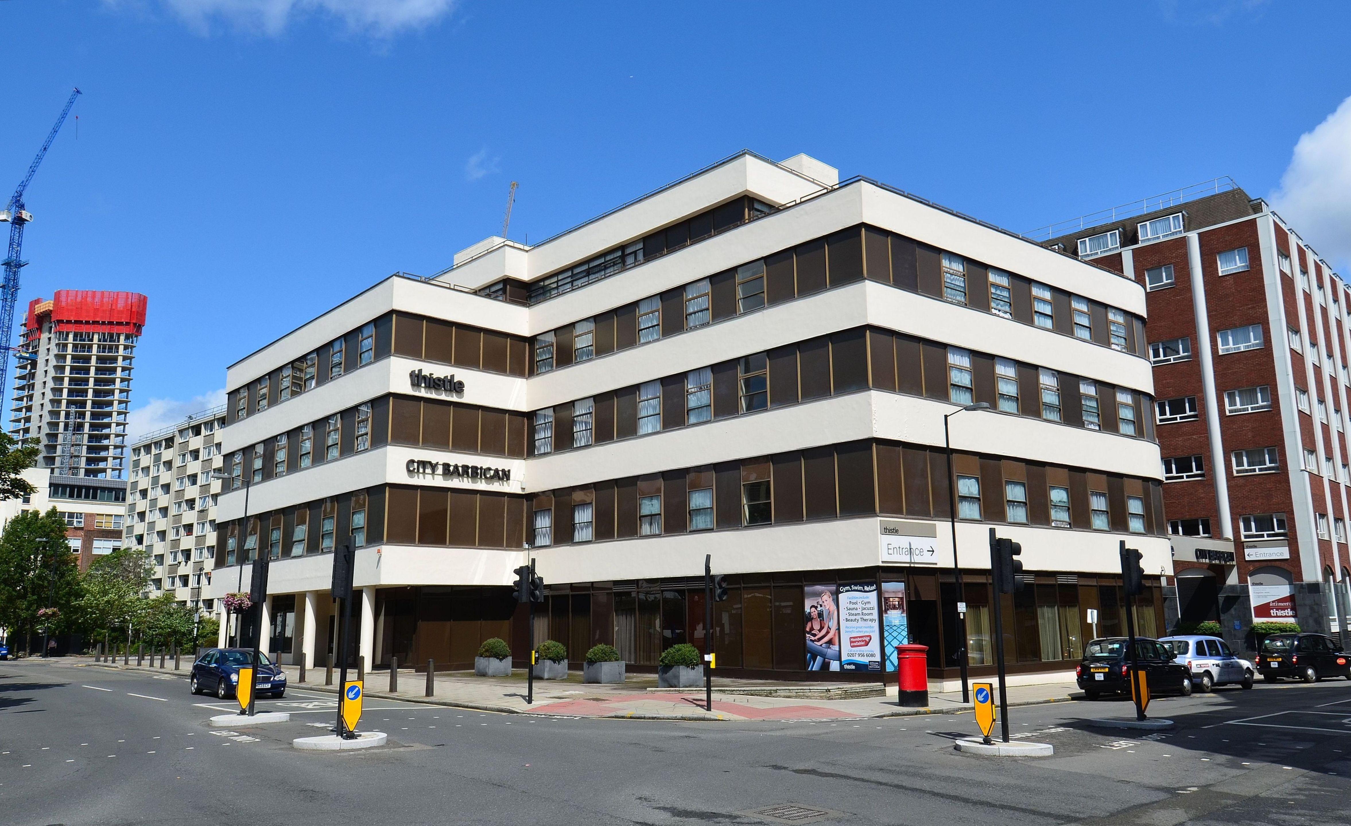 Thistle City Barbican Hotel in London